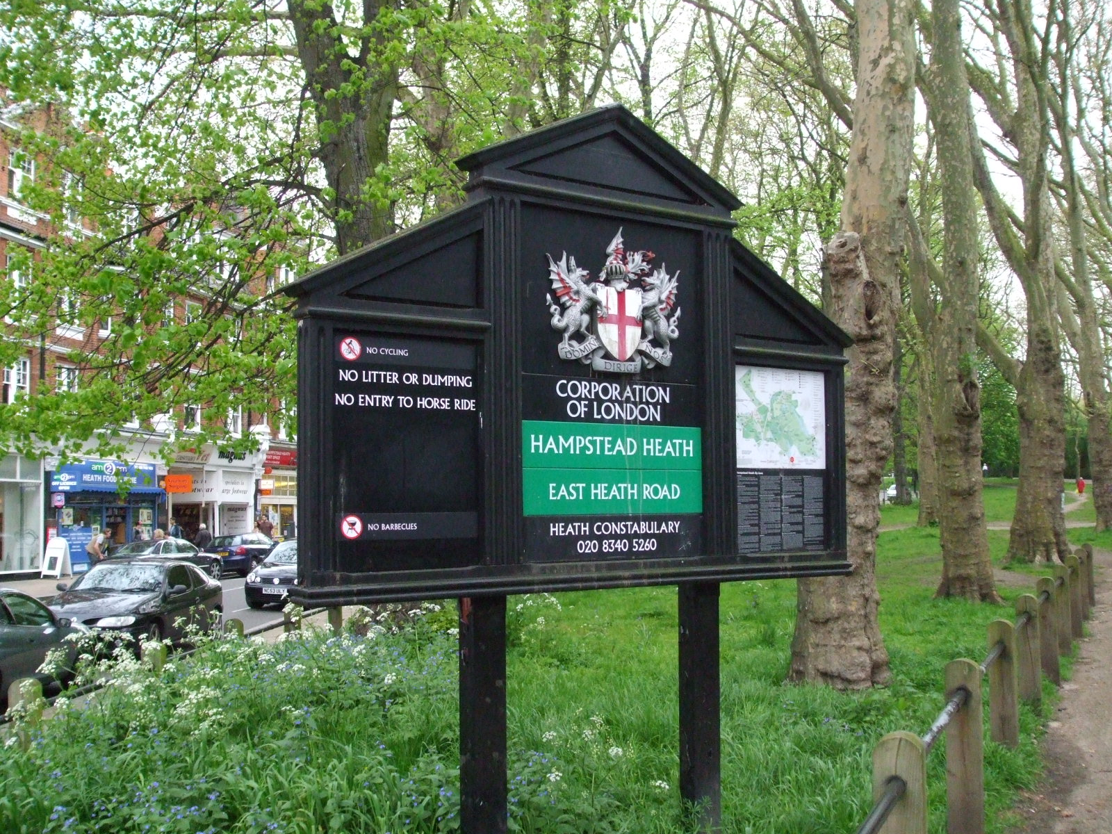 Southern entrance to Hampstead Heath close to the railway station